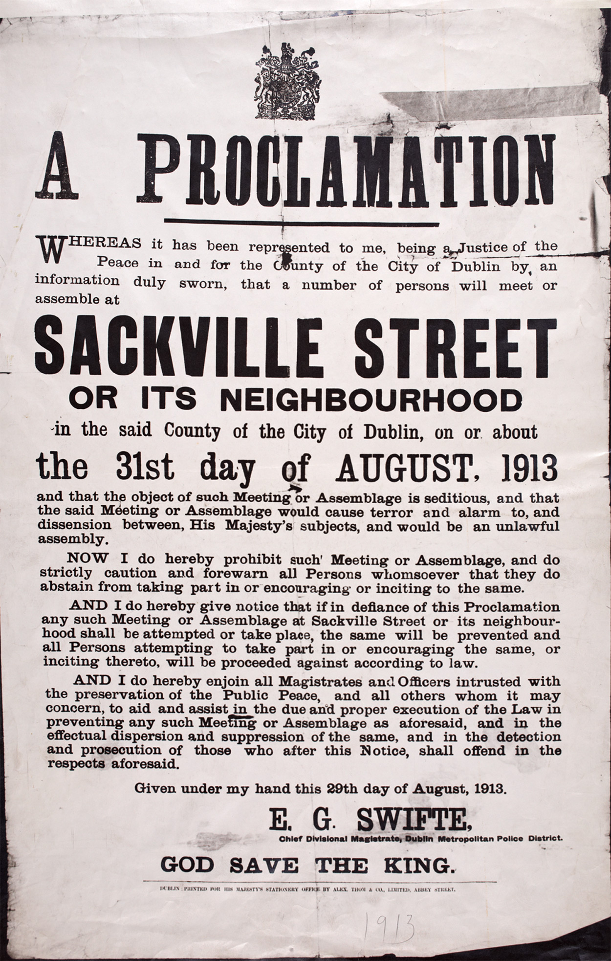 Proclamation issued by E.G. Swifte, Chief Divisional Magistrate of the Dublin Metropolitan Police District (and shareholder in the Dublin United Tramways Company). This was an attempt to stop the huge public meeting that Jim Larkin had called for, planned to take place on Sackville Street on Sunday 31st August. Larkin publicly burned this proclamation on the day it was issued... Date: Friday, 29 August 1913 Printed by: Alex. Thom & Co., Abbey Street, Dublin (for HMSO) Size: 61 x 40 cm NLI Ref.: EPH F273